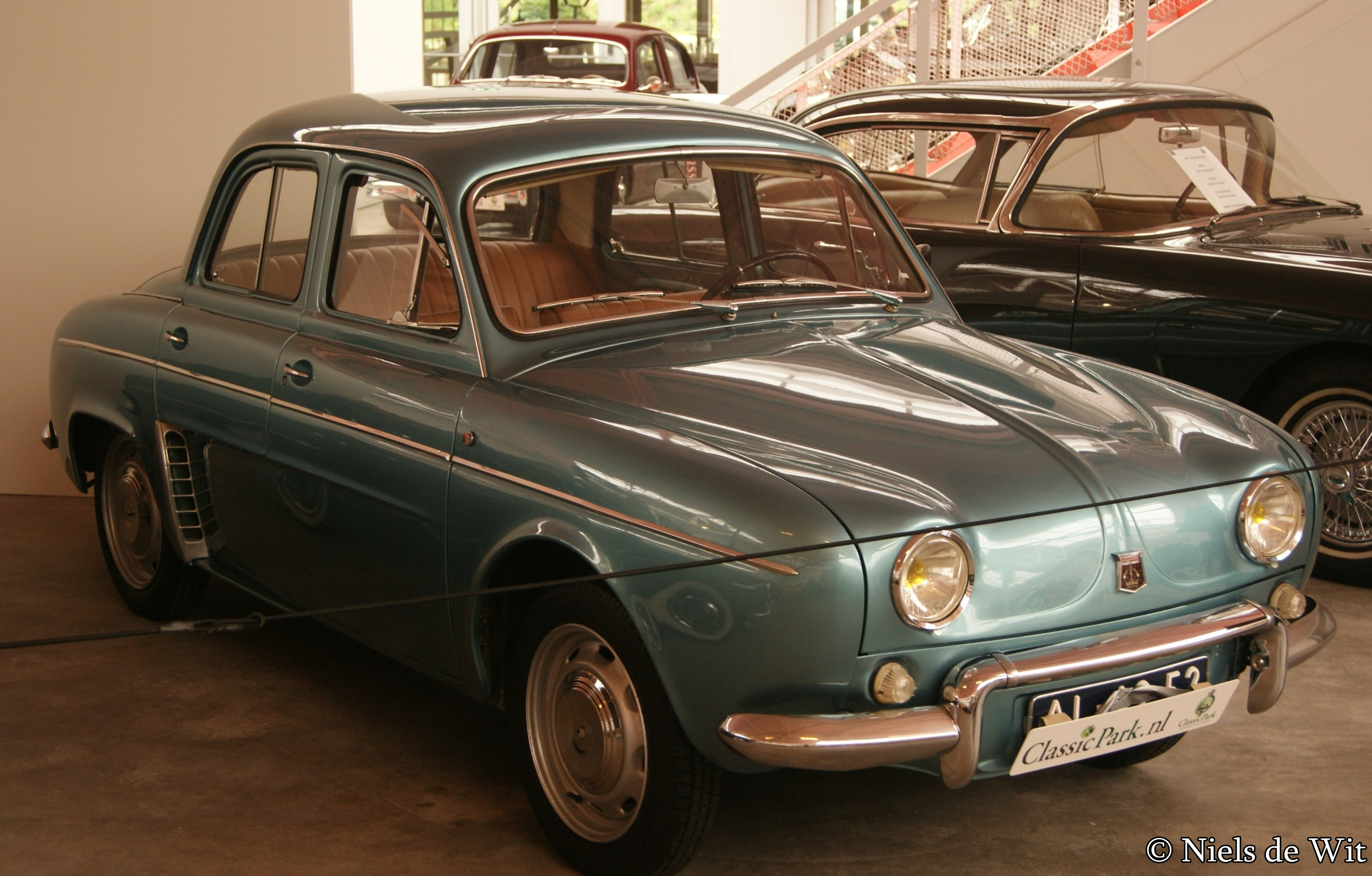 AL-62-52 Classic Park Boxtel